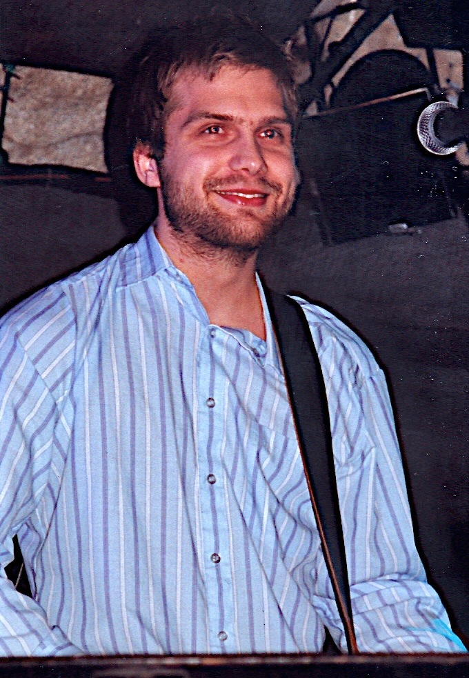 Thomas Hansen